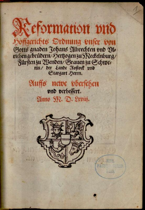 Frontpage of the "Reformation und Hoffgerichts Ordnung" of Johann Albrecht I. of Mecklenburg; Rostock 1568